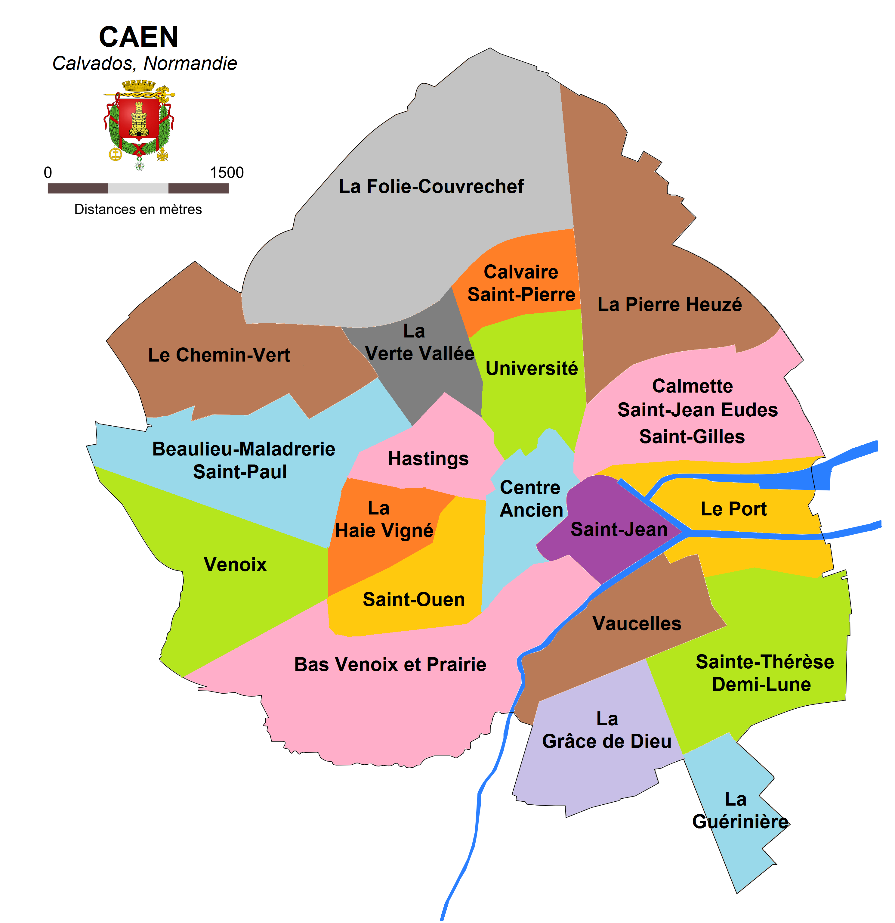 Caen Districts